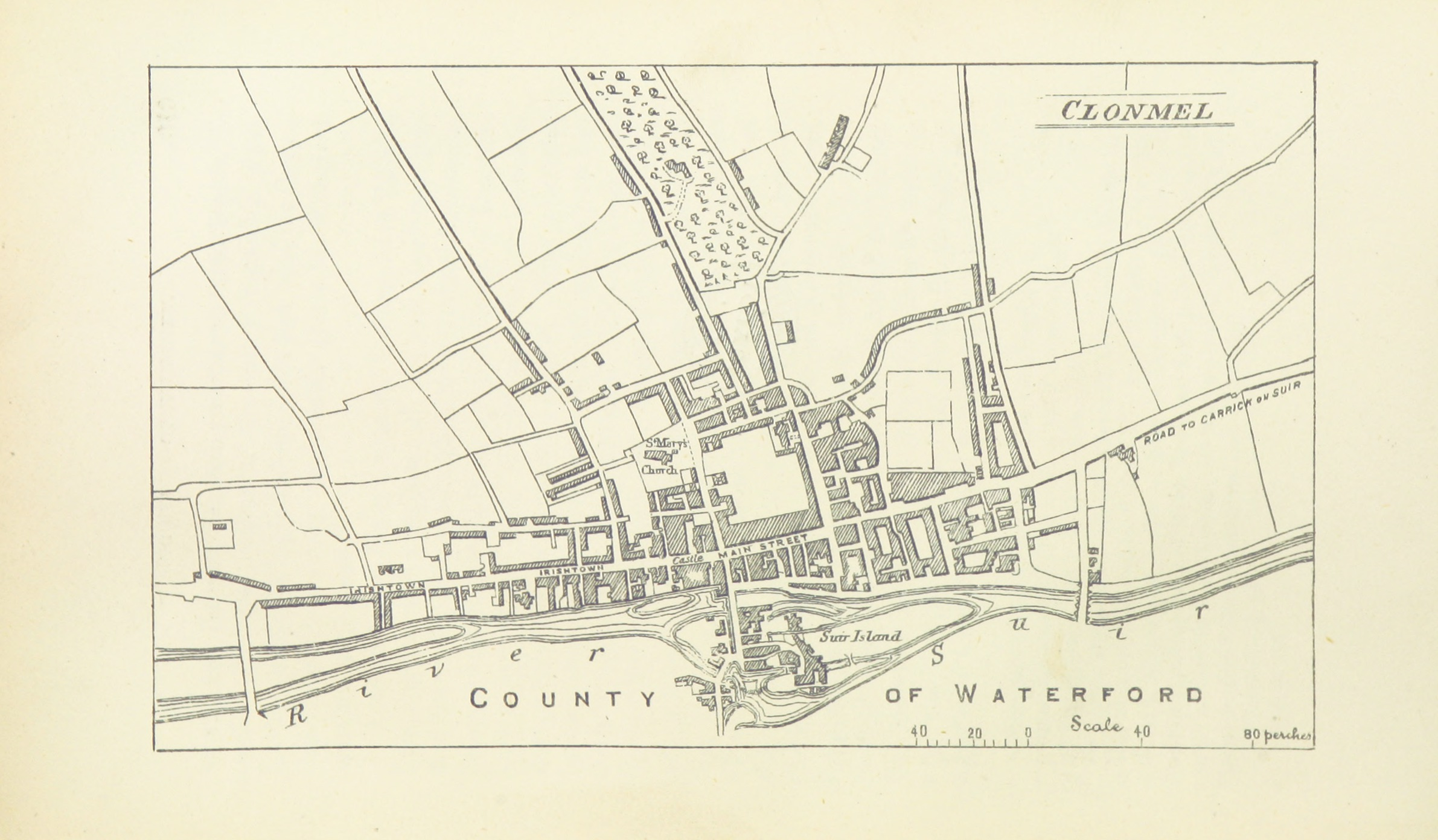 View this map on the BL Georeferencer service. Image taken from: Title: "Cromwell in Ireland, a history of Cromwell's Irish Campaign ... with map, plans and illustrations" Author: MURPHY, Denis. Shelfmark: "British Library HMNTS 9509.bb.8." Page: 371 Place of Publishing: Dublin Date of Publishing: 1883 Publisher: Gill and Son Issuance: monographic Identifier: 002588807 Explore: Find this item in the British Library catalogue, 'Explore'. Download the PDF for this book (volume: 0) Image found on book scan 371 (NB not necessarily a page number) Download the OCR-derived text for this volume: (plain text) or (json) Click here to see all the illustrations in this book and click here to browse other illustrations published in books in the same year. Order a higher quality version from here.